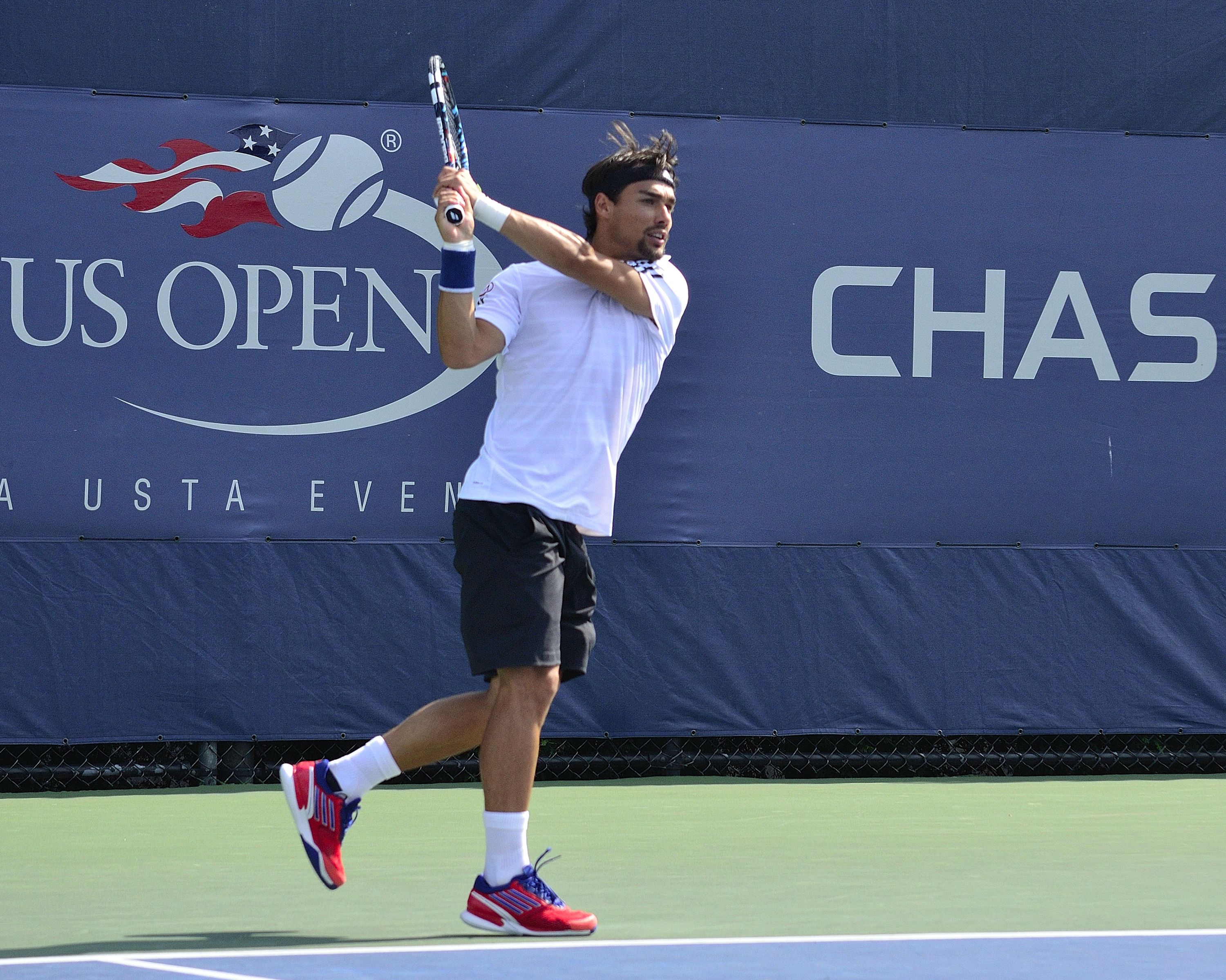 Queens, NY August 30, 2013 Michael Llodra (FRA) / Nicolas Mahut (FRA) def. Fabio Fognini (ITA) / Albert Ramos (ESP) Court 8